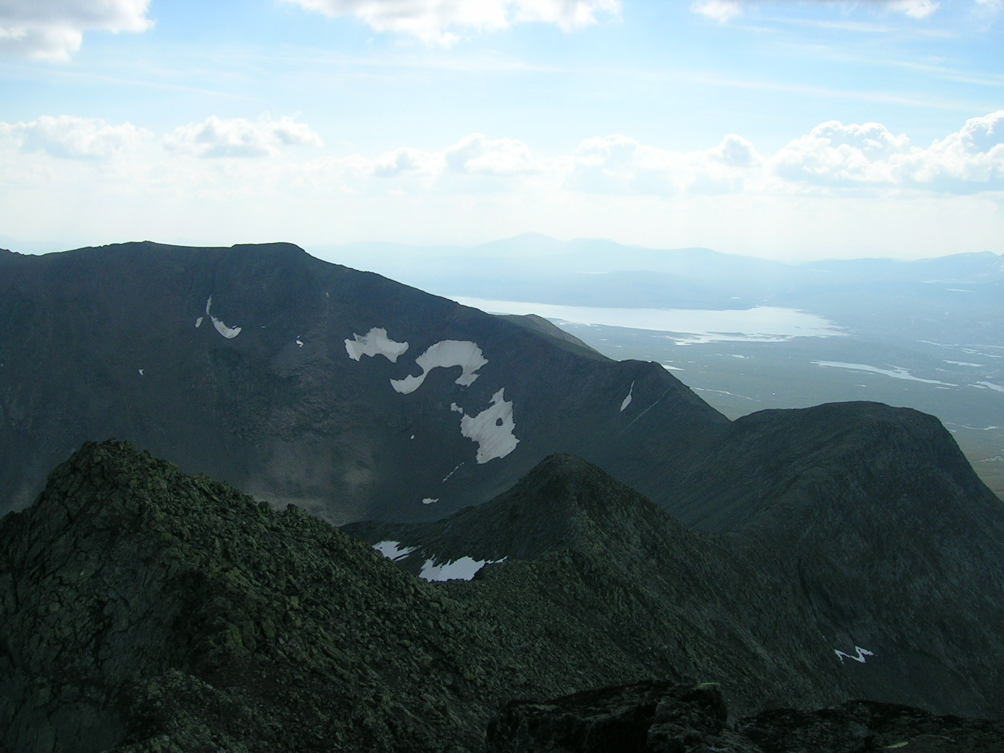 Sylmassivet - mountain area in Sylane, Norway.